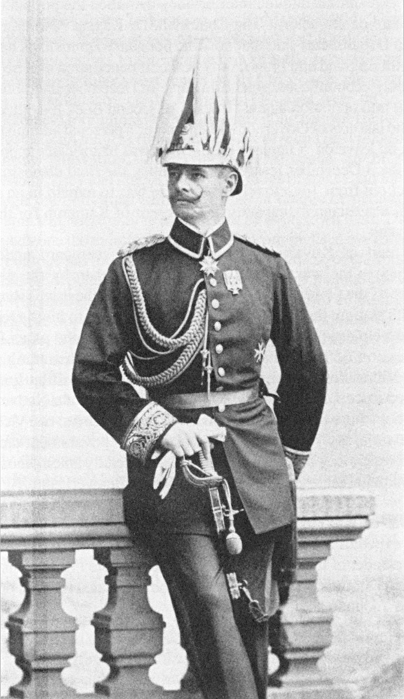 Governor Jesko von Puttkamer of Kamerun in full dress.